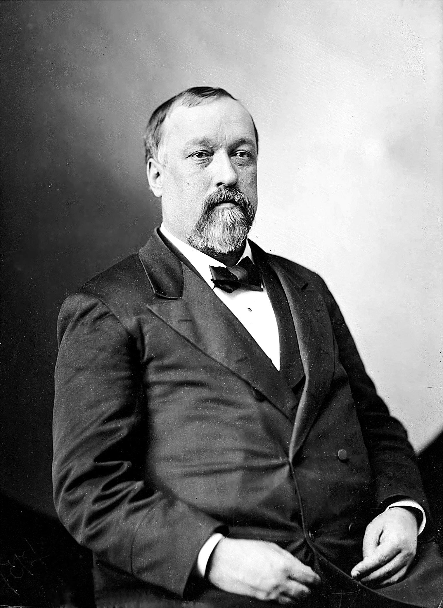 Benjamin Helm Bristow U.S. Secretary of Treasury and First Solicitor General or the United States. Appointed by President Ulysses S. Grant to both offices. Prosecuted and shut down the Whiskey Ring.